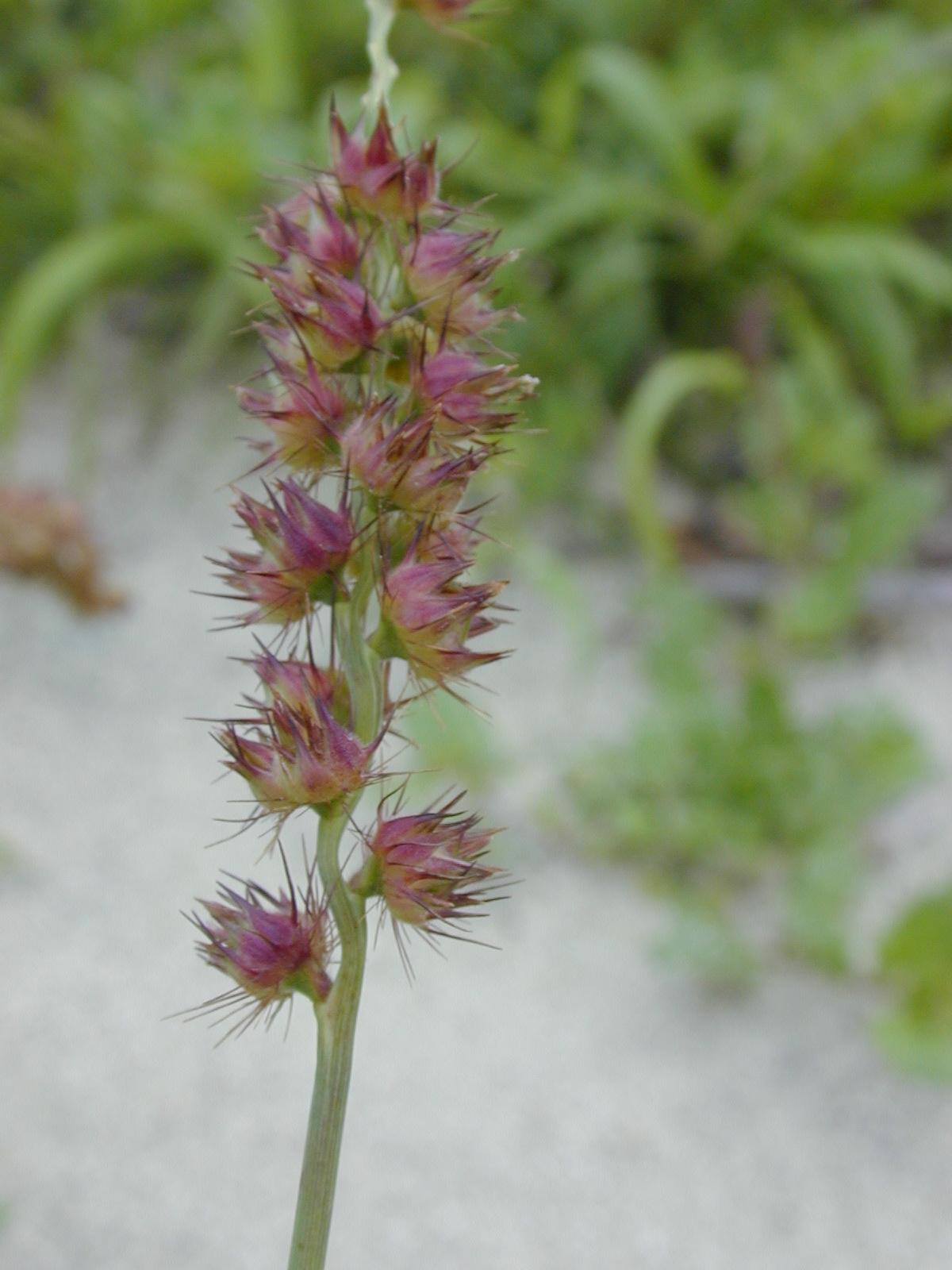 Cenchrus echinatus (burs). Location: Kure Atoll, Inland